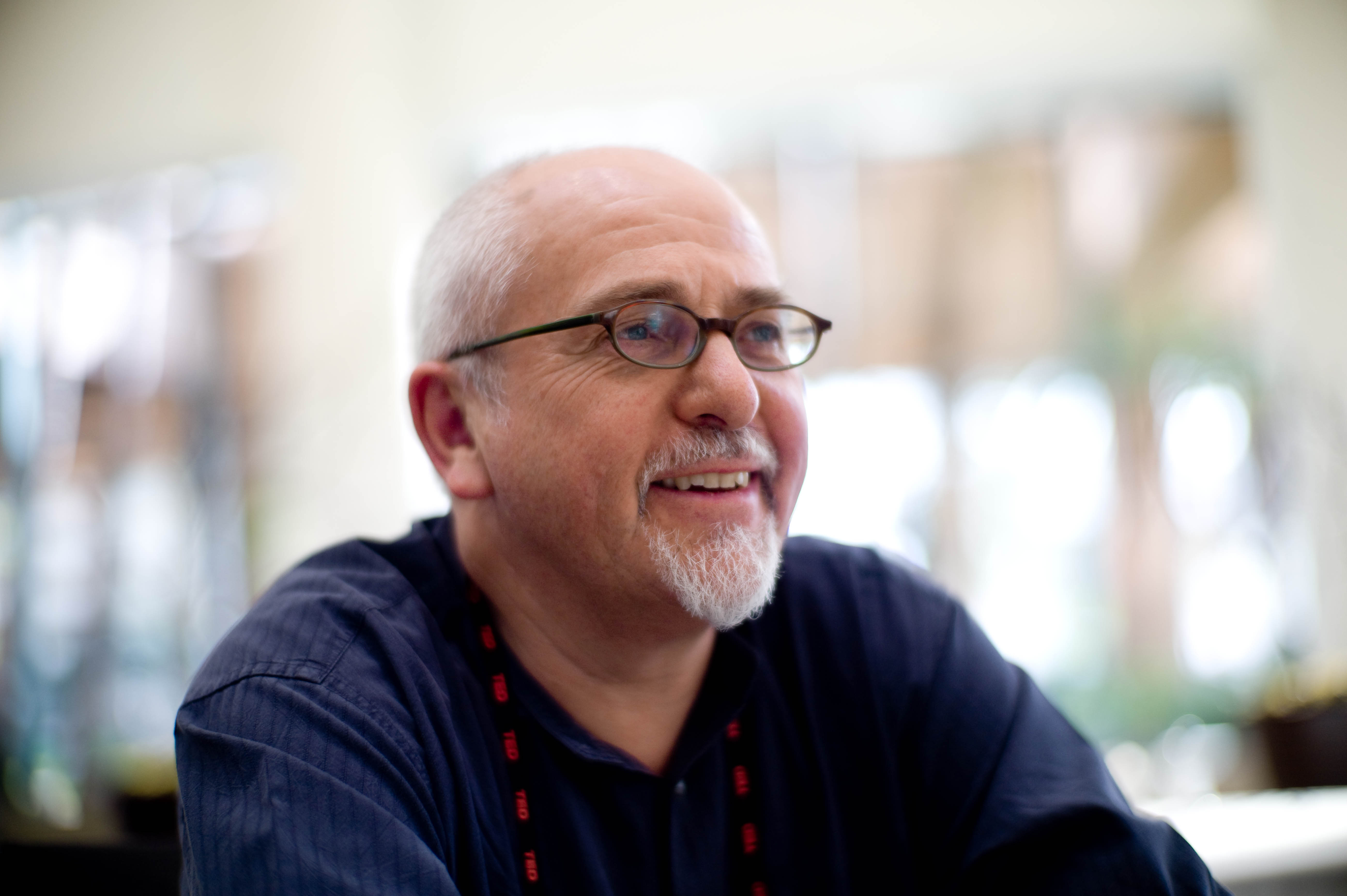 Peter Gabriel